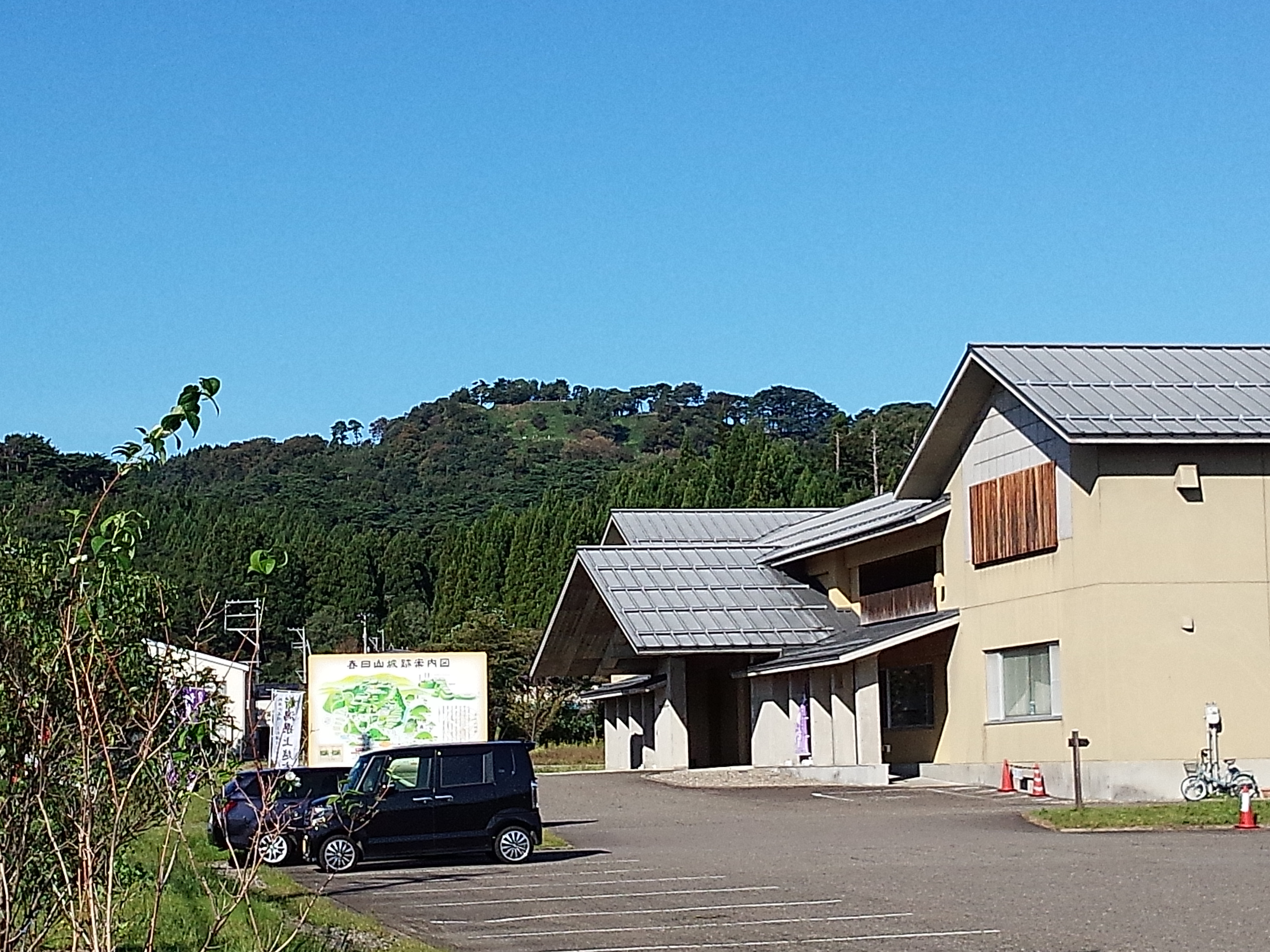 Kasaugayama Castle from Joetsu-shi Maizo Bunkazai Center